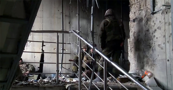 Battle for Donetsk airport, 16 January 2015.